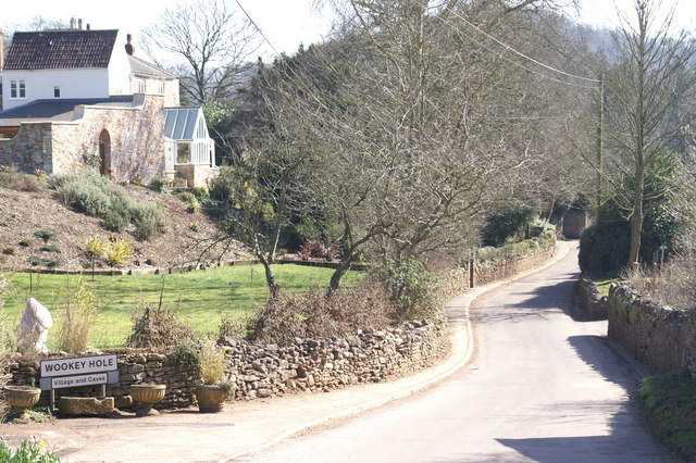 Welcome to Wookey Hole. Start of the village in Somerset